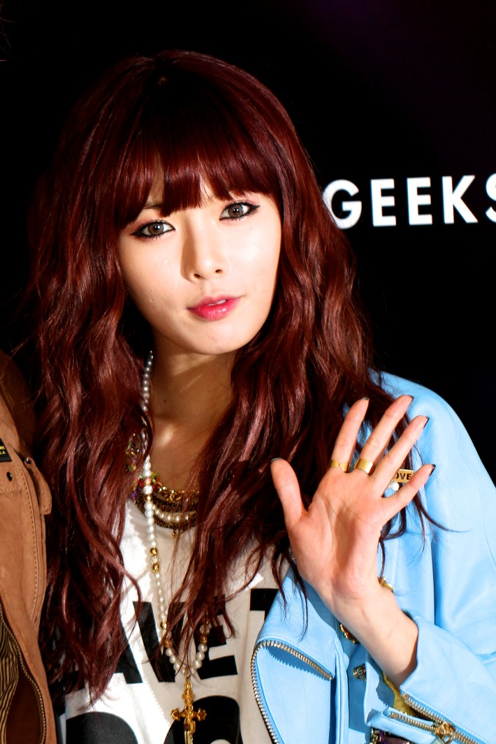 HyunA at GEEKSHOP open party.